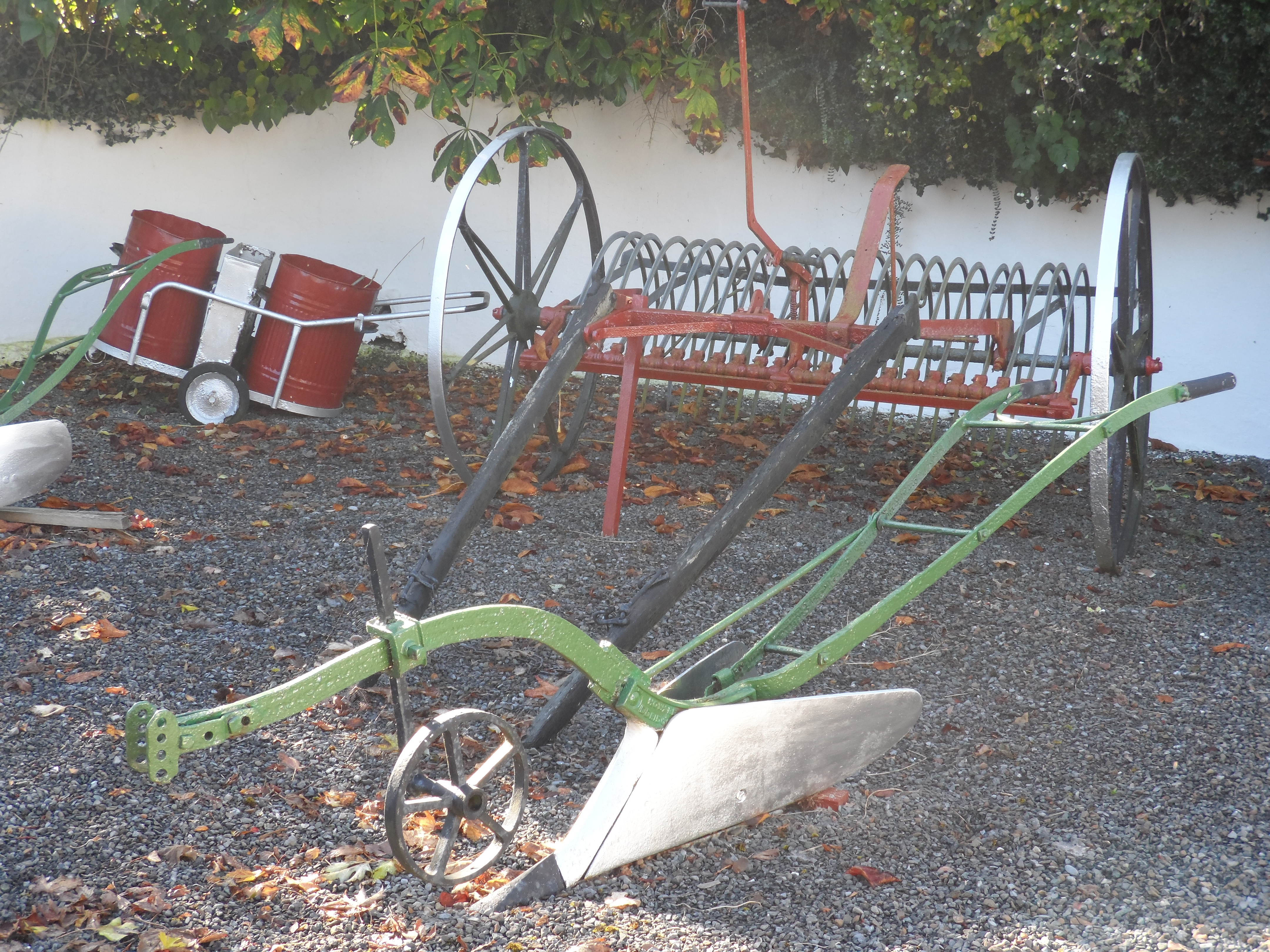 Steel plough, Emly